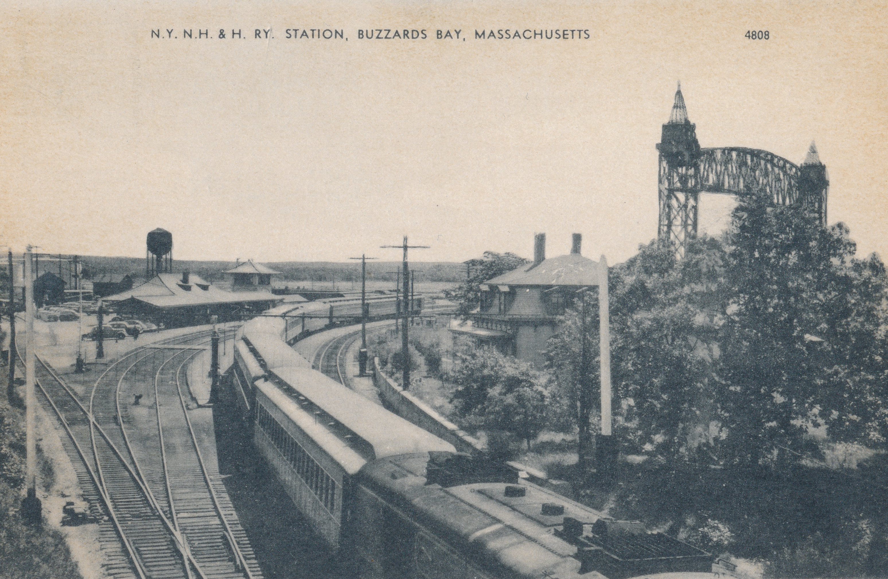 An early postcard showing the Buzzards Bay, Massachusetts railway station.